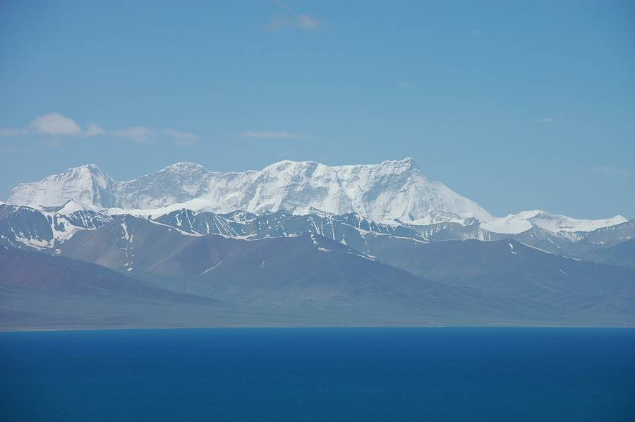 The main peak of the Nyainqêntanglha Mountains, seen from Lake Namtso